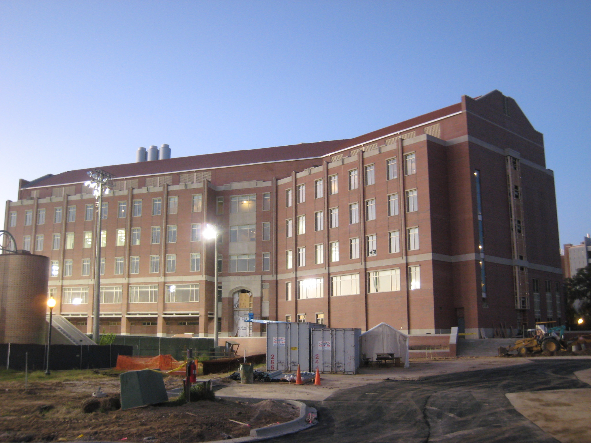 Florida State University.